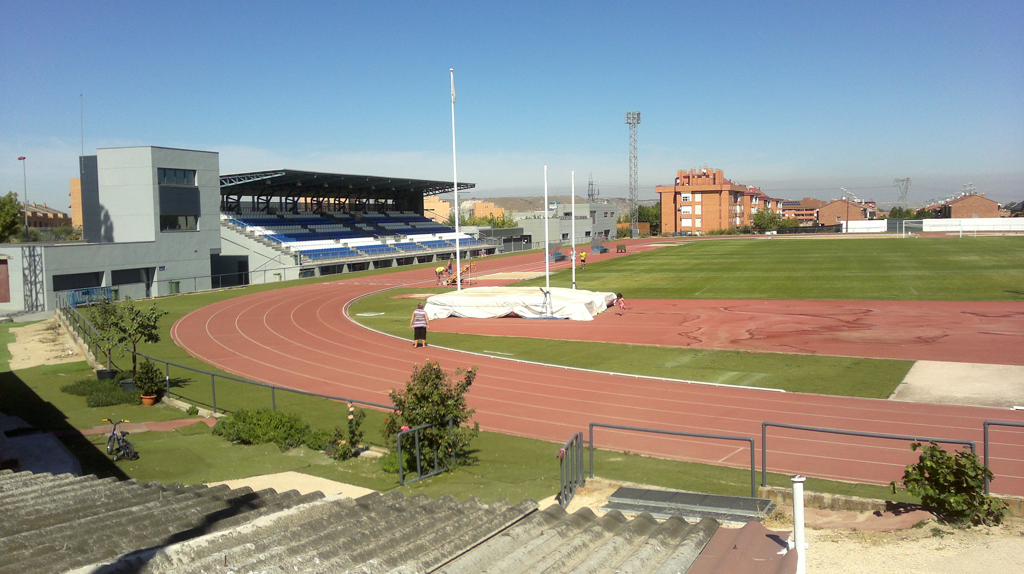 Municipal Stadium in Arganda.